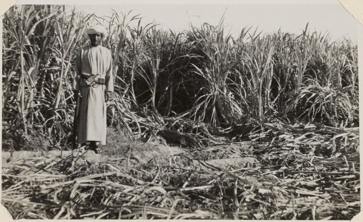 Sugar cane (top) grown using the Rizat irrigation system and bananas (bottom) being grown in Dhofar Governorate.